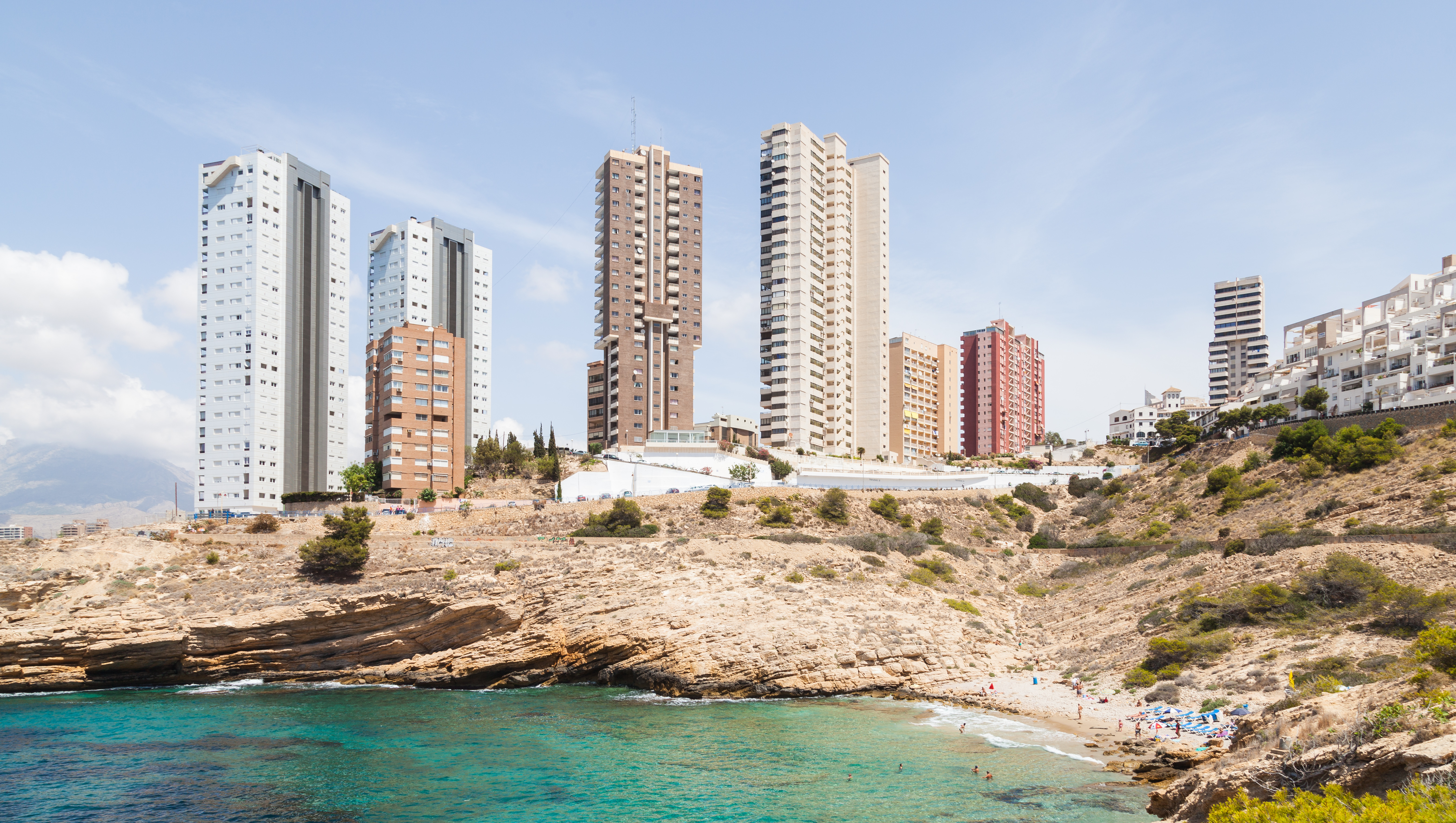 Coast of Benidorm, Spain